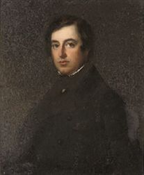 Portrait of Sir Frederick Winn Knight (1812-1897), bust-length, in a black coat, English School, 19th Century. oil on canvas, 29½ x 24¼ in. (74.9 x 61.6 cm.) Christies South Kensington, Sale Number 5343, 8 January 2008, lot 134, Price Realized (Set Currency) £3,750